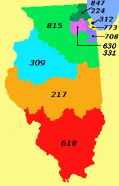 Map showing area codes for the state of Illinois in 8 colors.